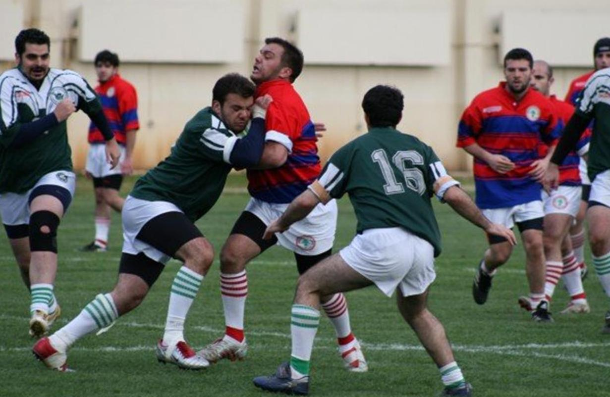 This picture shows Ray Finan (Immortals RLFC) tackling his identical twin brother Mounir Finan (Wolves RLFC).